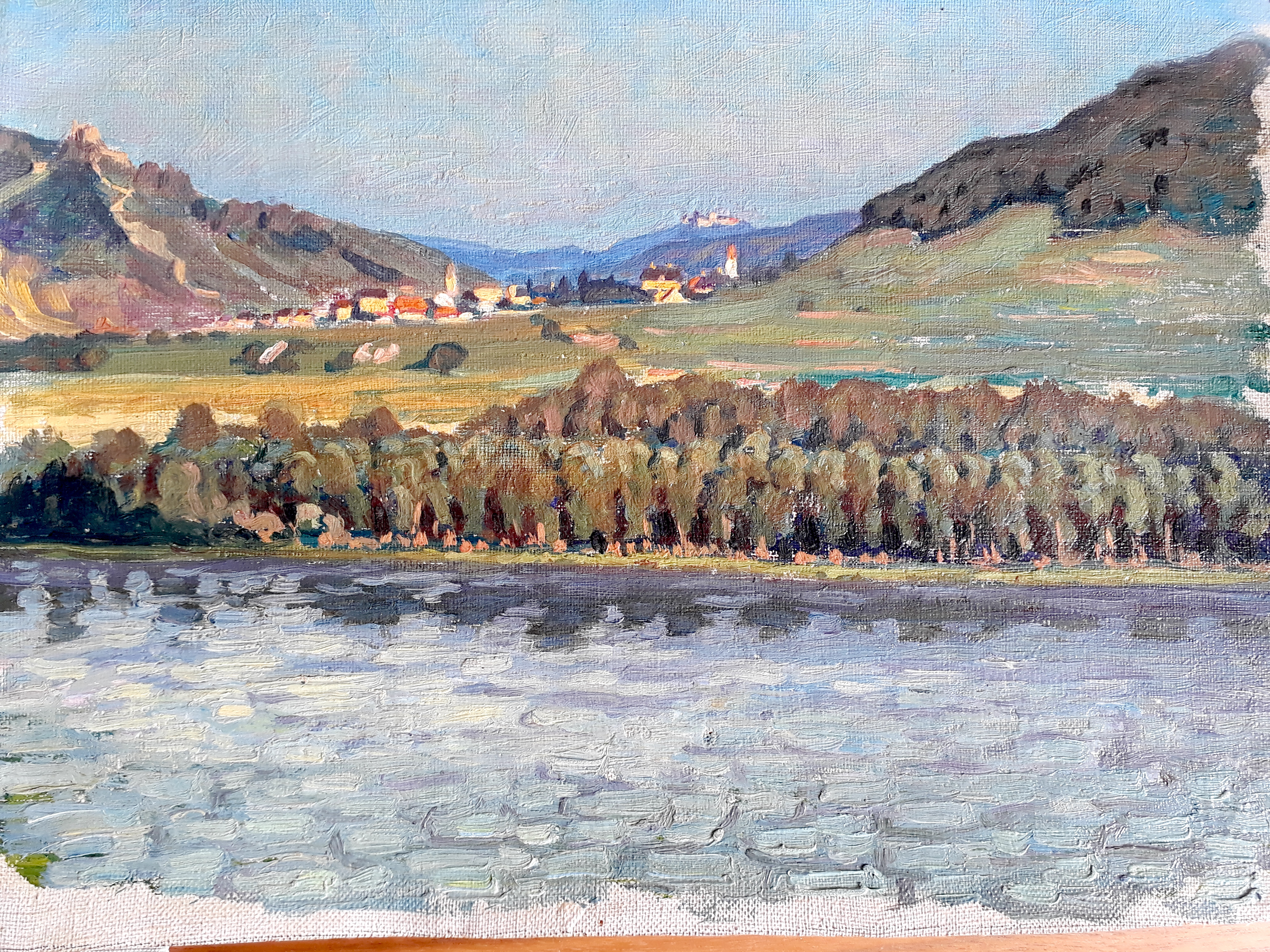 Karl Camillo Schneider - Landschaft in der Wachau, Öl auf Leinwand ca. 32 x 24 cm.